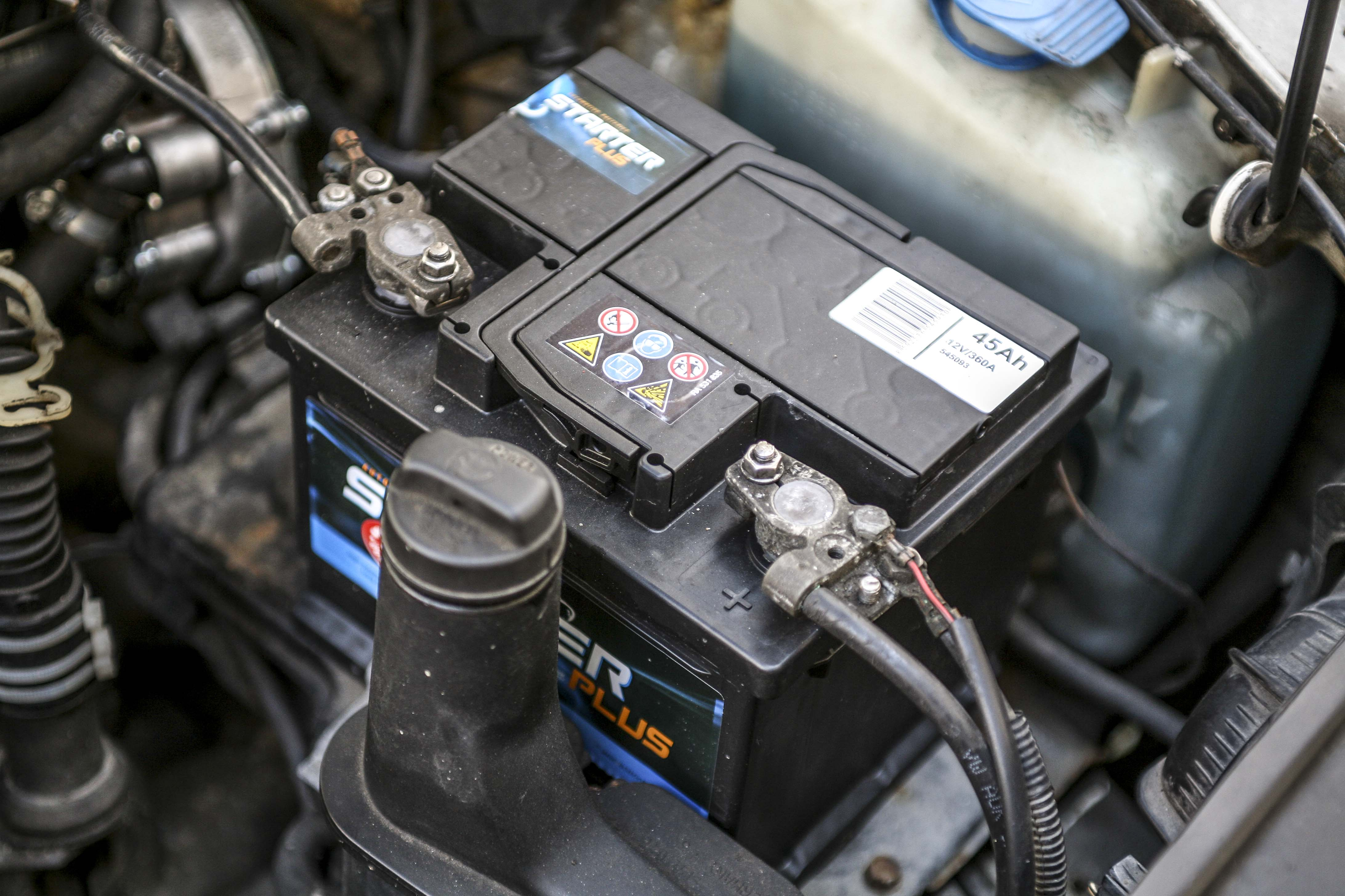 Pvrchova vada na Volks wagen Golf